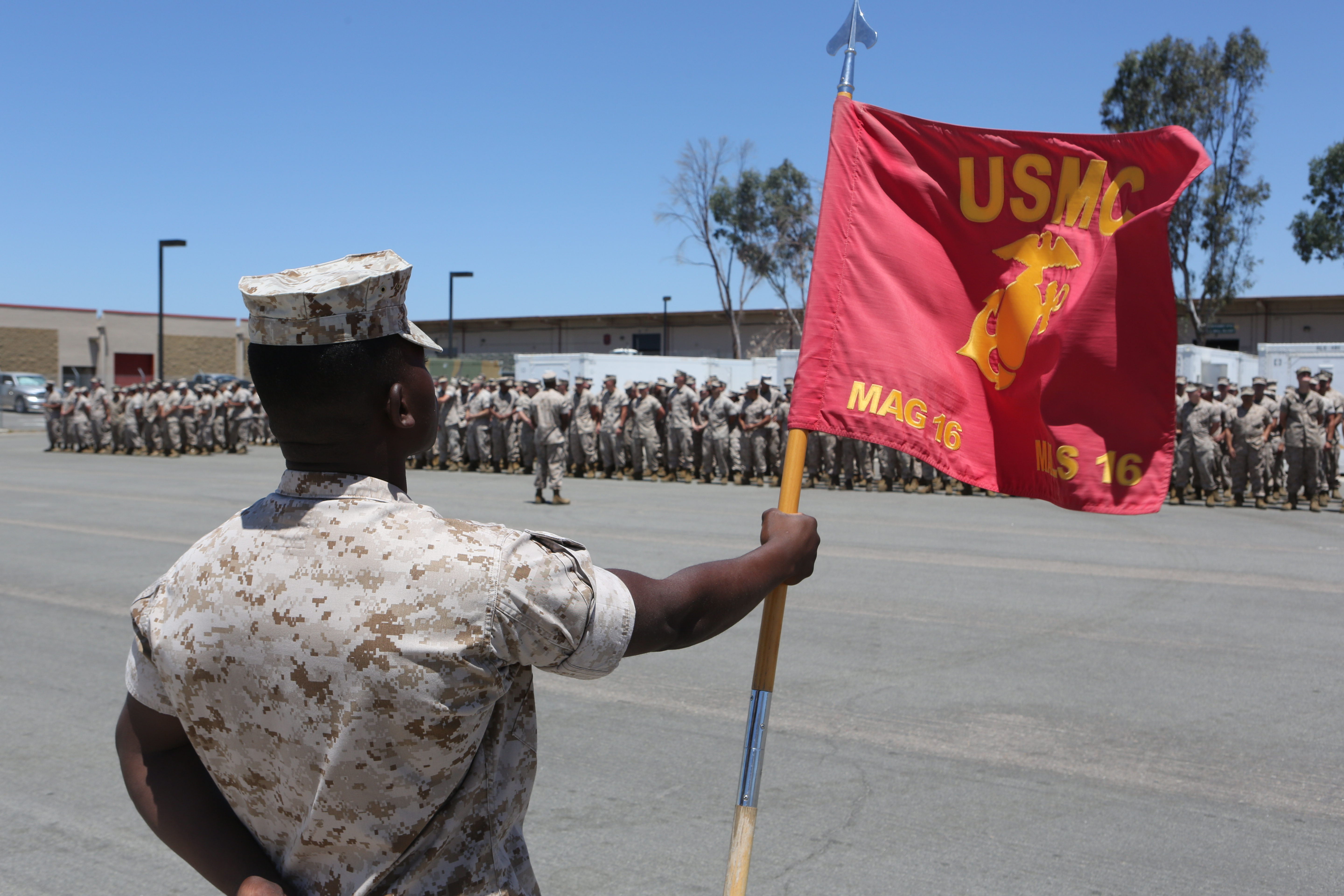 Marine Corps Air Station Miramar, Calif. - Cpl. Rohan Neil, a training manager with Marine Aircraft Logistics Squadron (MALS) 16, stands at parade rest before a congratulatory speech given by Col. Anthony Bianca, Marine Aircraft Group (MAG) 16 commanding officer, after passing an aviation maintenance inspection with a grade of 100 percent aboard Marine Corps Air Station Miramar, Calif., June 13. The inspection is held to determine if there are any areas the squadron is off track or needs attention. The results are a firm indication that MALS-16 is one of the best units in the Marine Corps.